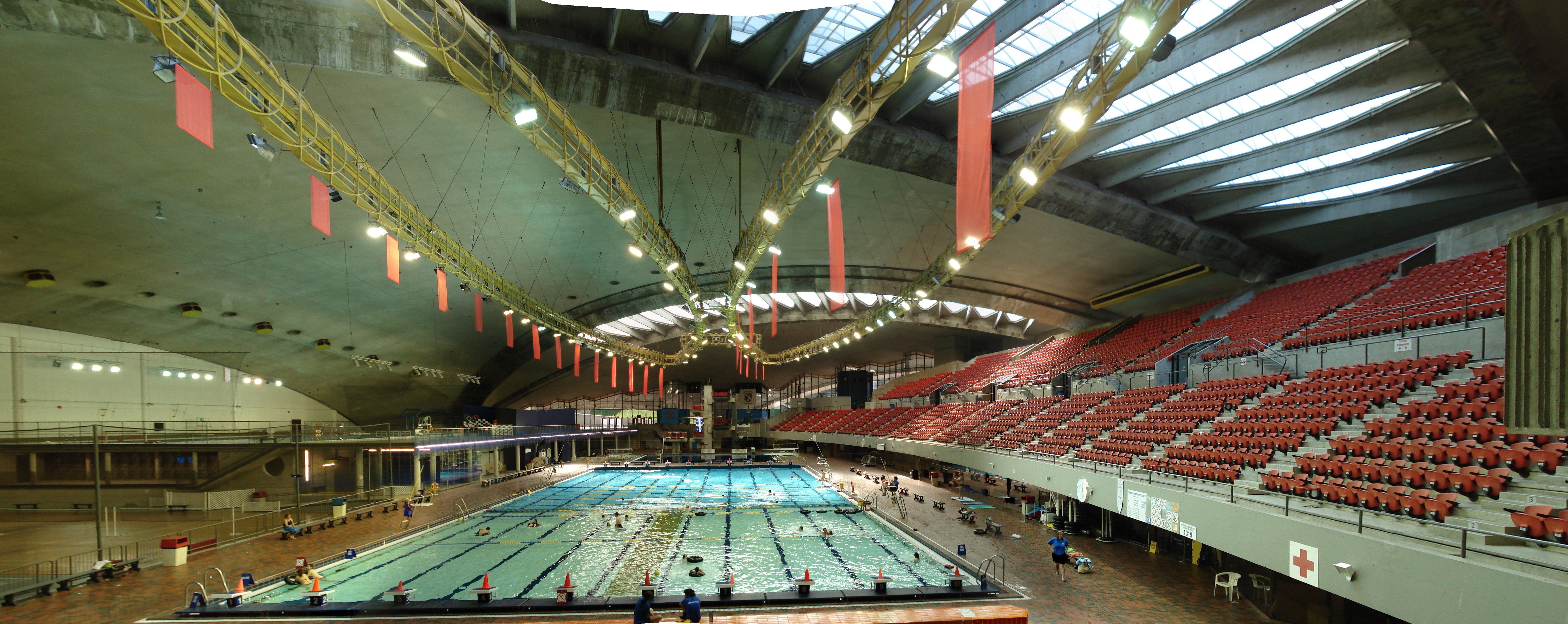 The olympic swimming pool at Montreal, taken during summer 2008